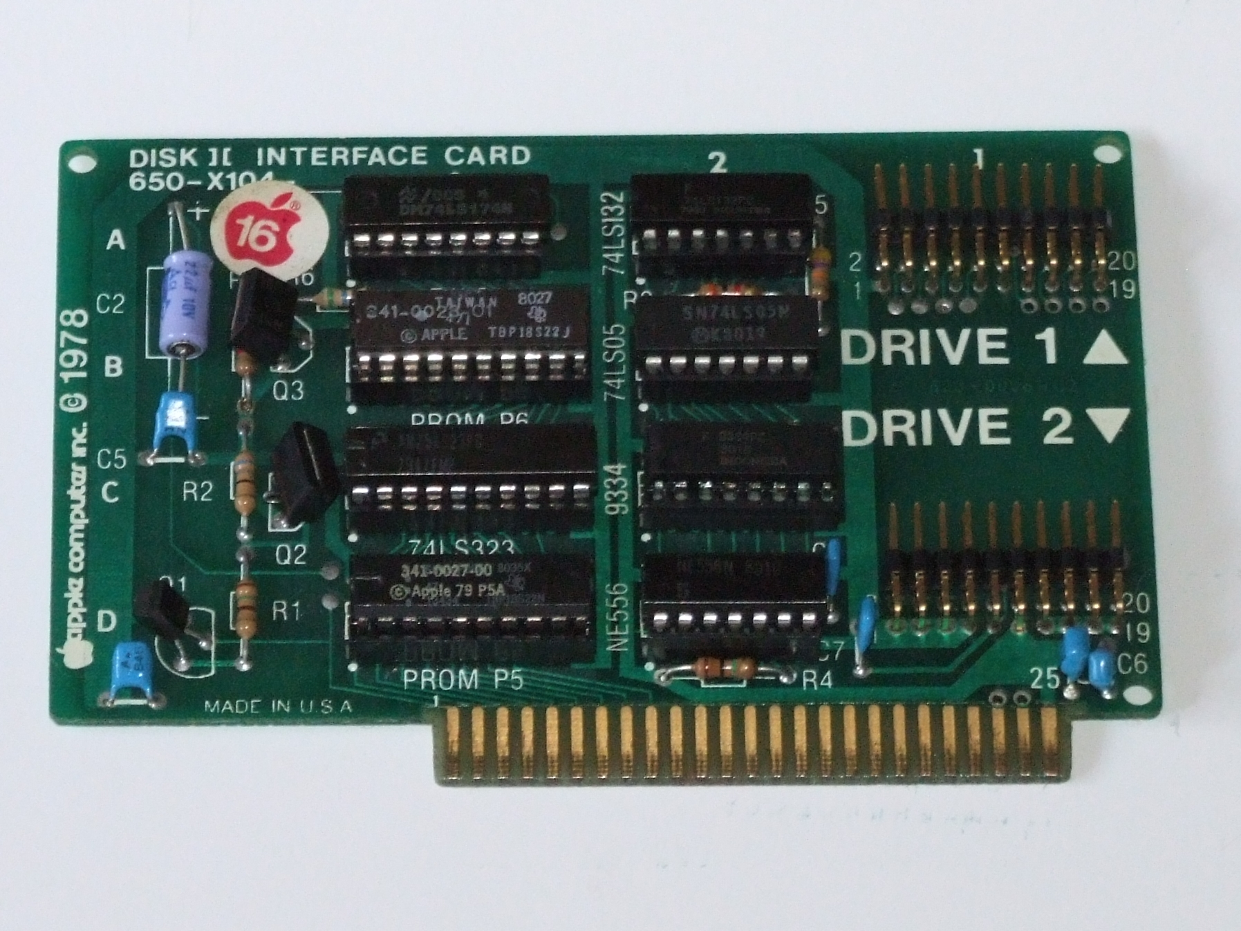 Interface Card - Disk II Interface Apple II